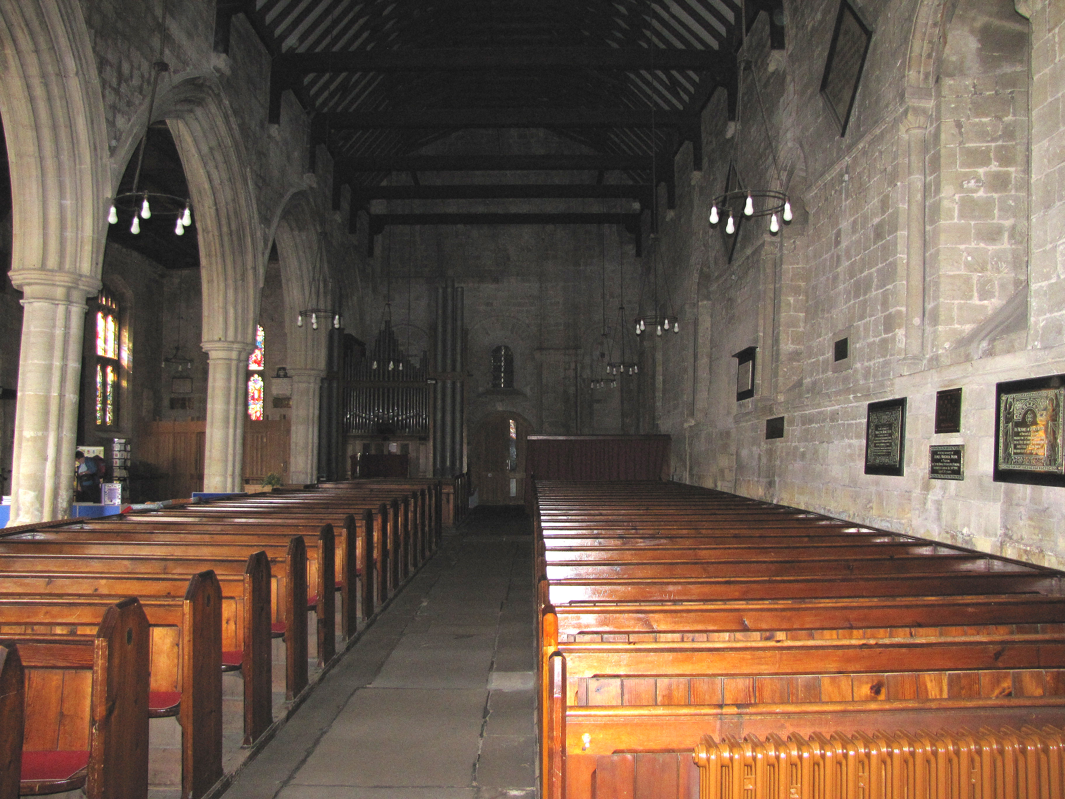 The nave at St Lawrence's church in Warkworth, Northumberland, England